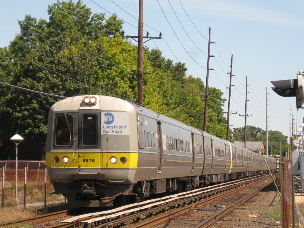 Long Island Rail Road train #2820, an eight car train on the Far Rockaway Branch, departs the Cedarhurst Station en route to Far Rockaway.